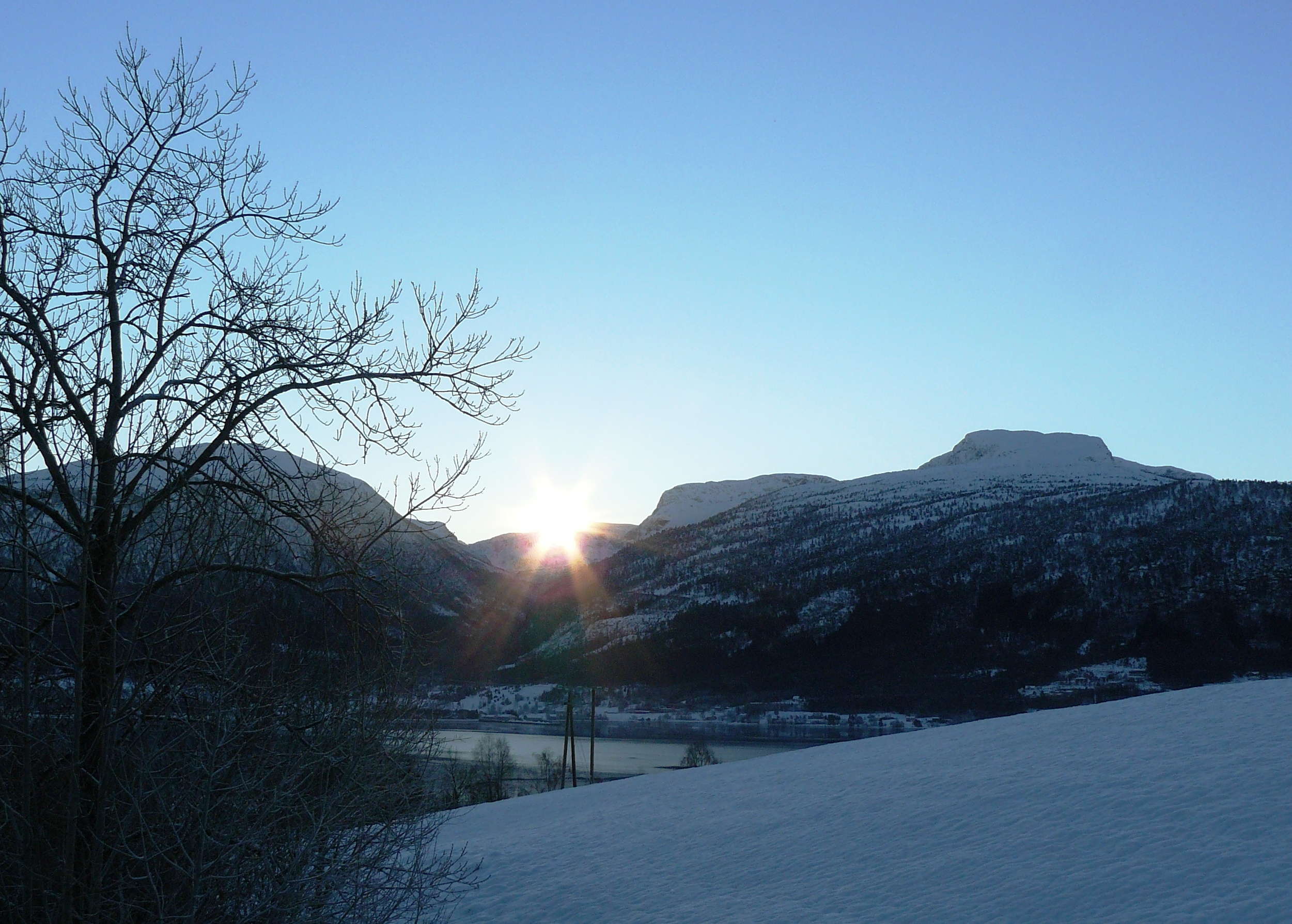 Fitjeskaret in Gloppen, sun beaming through the mountains in wintertime